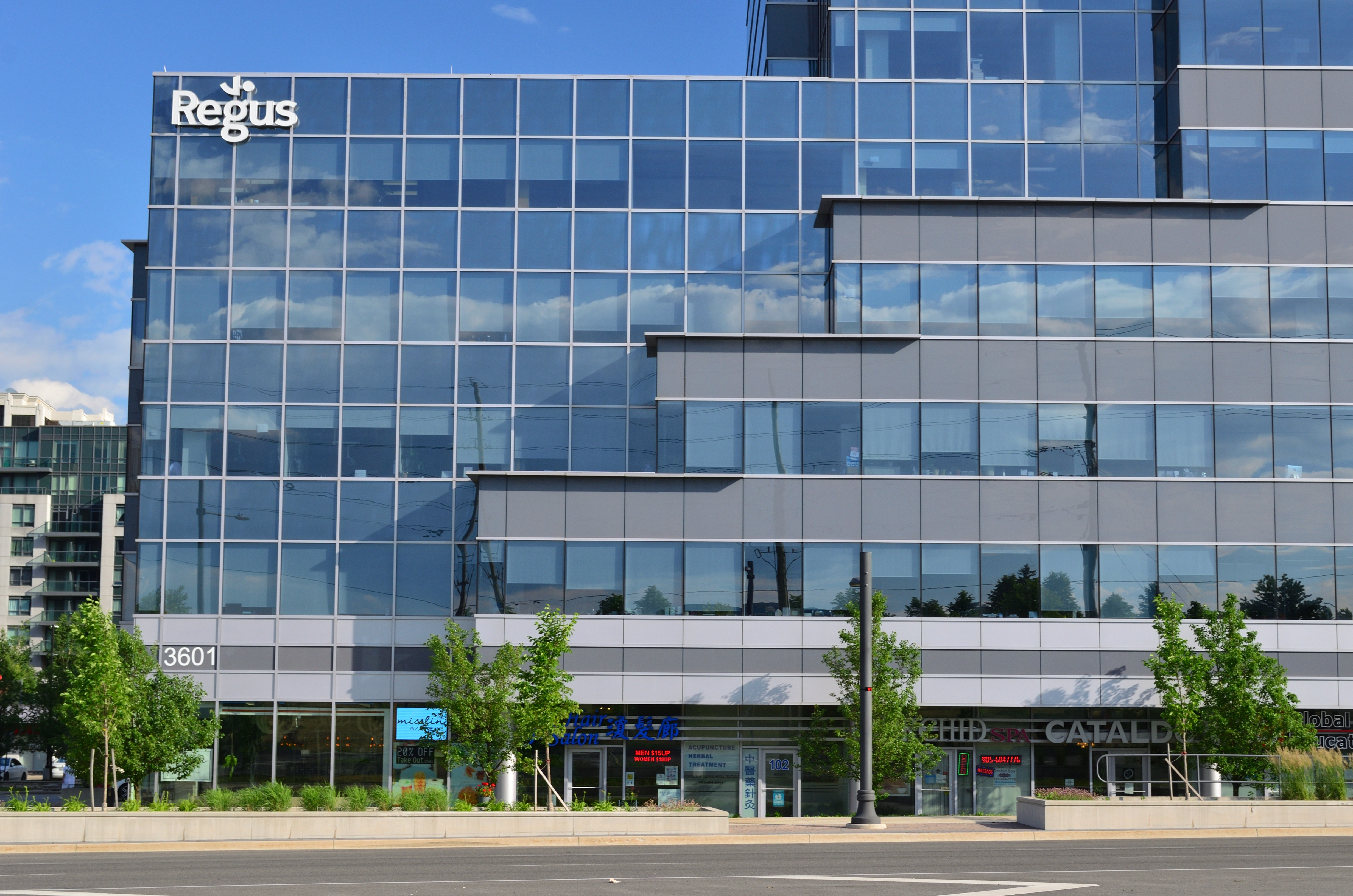 Regus - Address: 3601 Hwy 7, Markham, ON L3R 0M3